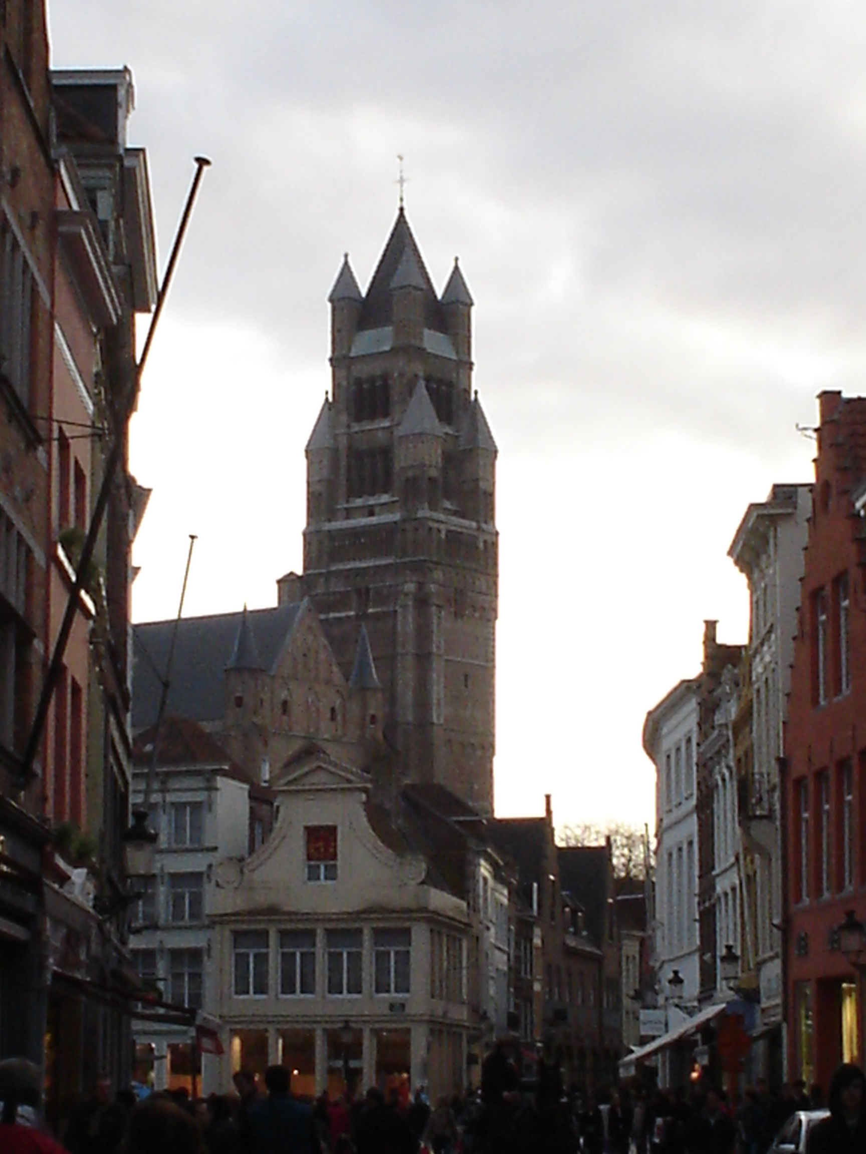 Church of Saint Salvator, Bruges, West-Flanders, Belgium